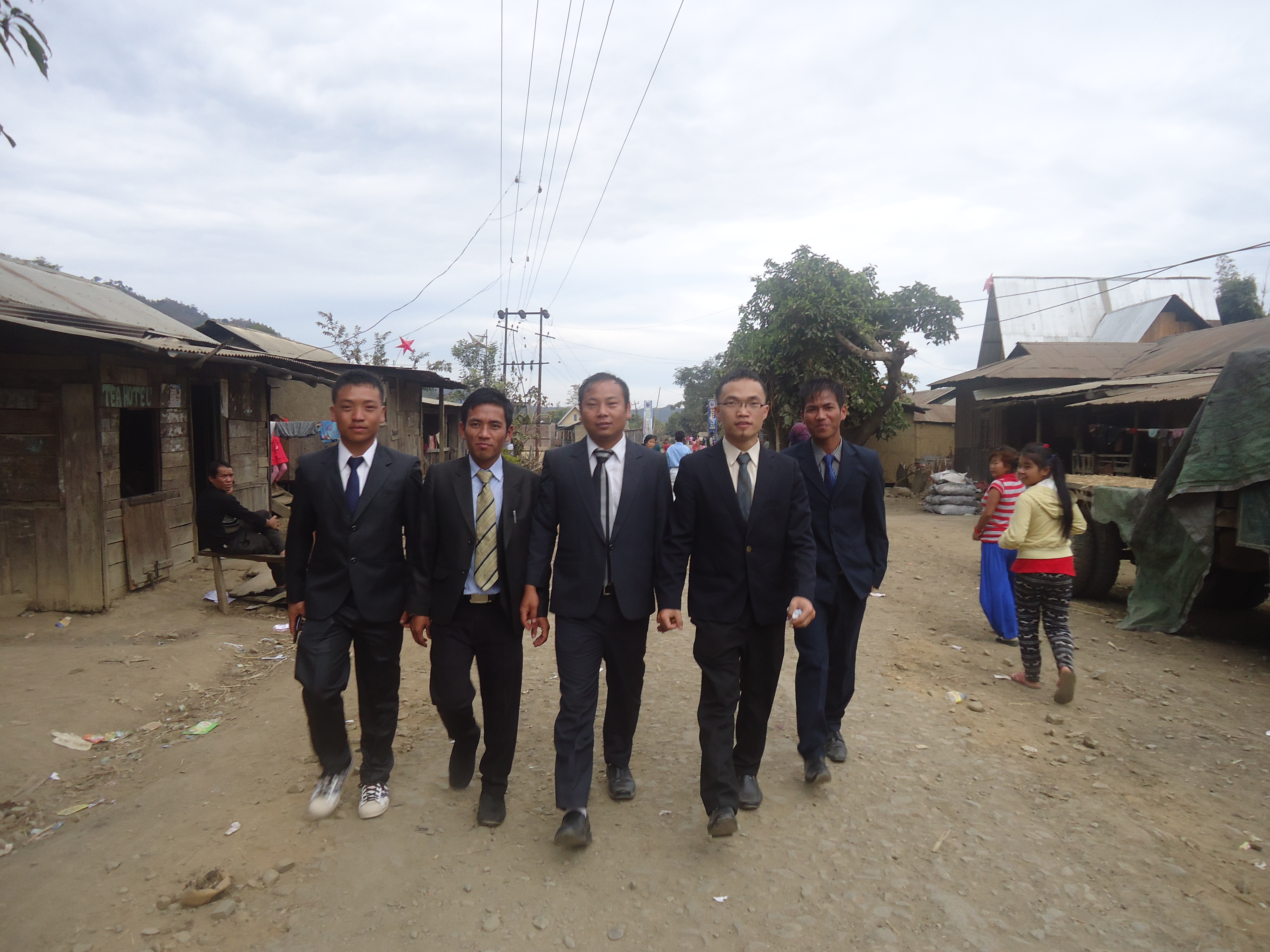 mainroad